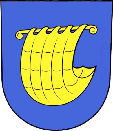 Municipal coat of arms of town Radenín, Tábor District, Czech Republic